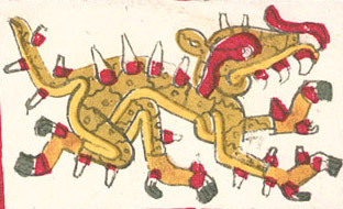 Cipactli described in the Codex Borgia.